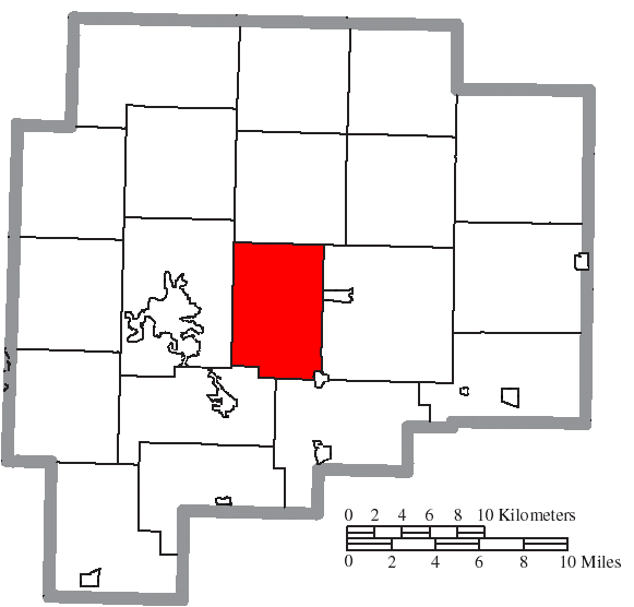 Map of the municipal and township boundaries of Guernsey County, Ohio, United States, as of the 2000 census, with the location of Center Township highlighted. Township borders are shown only in unincorporated areas in order to differentiate incorporated and unincorporated areas more clearly.